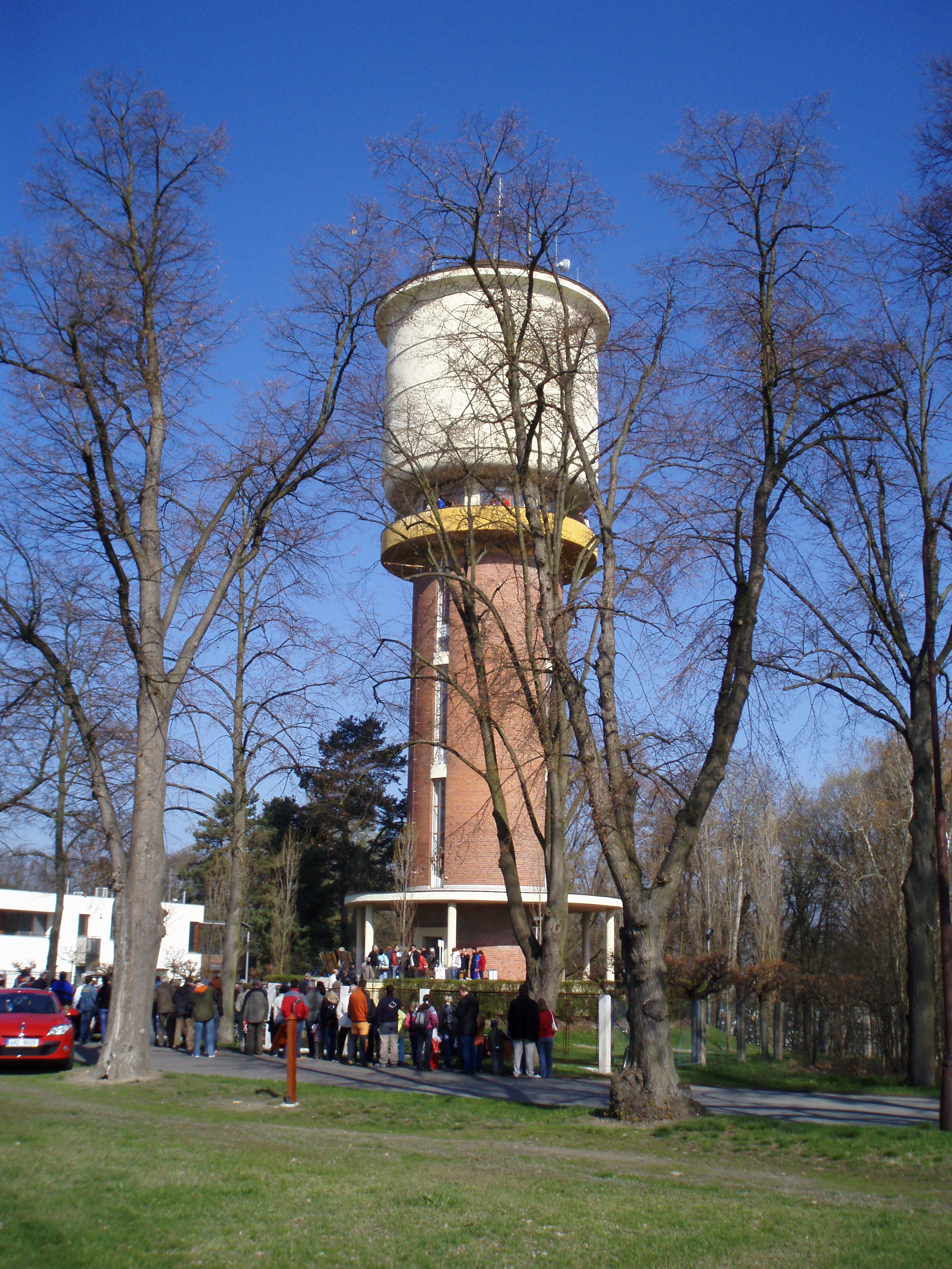 Water tower in Hradec Králové (Czechia)